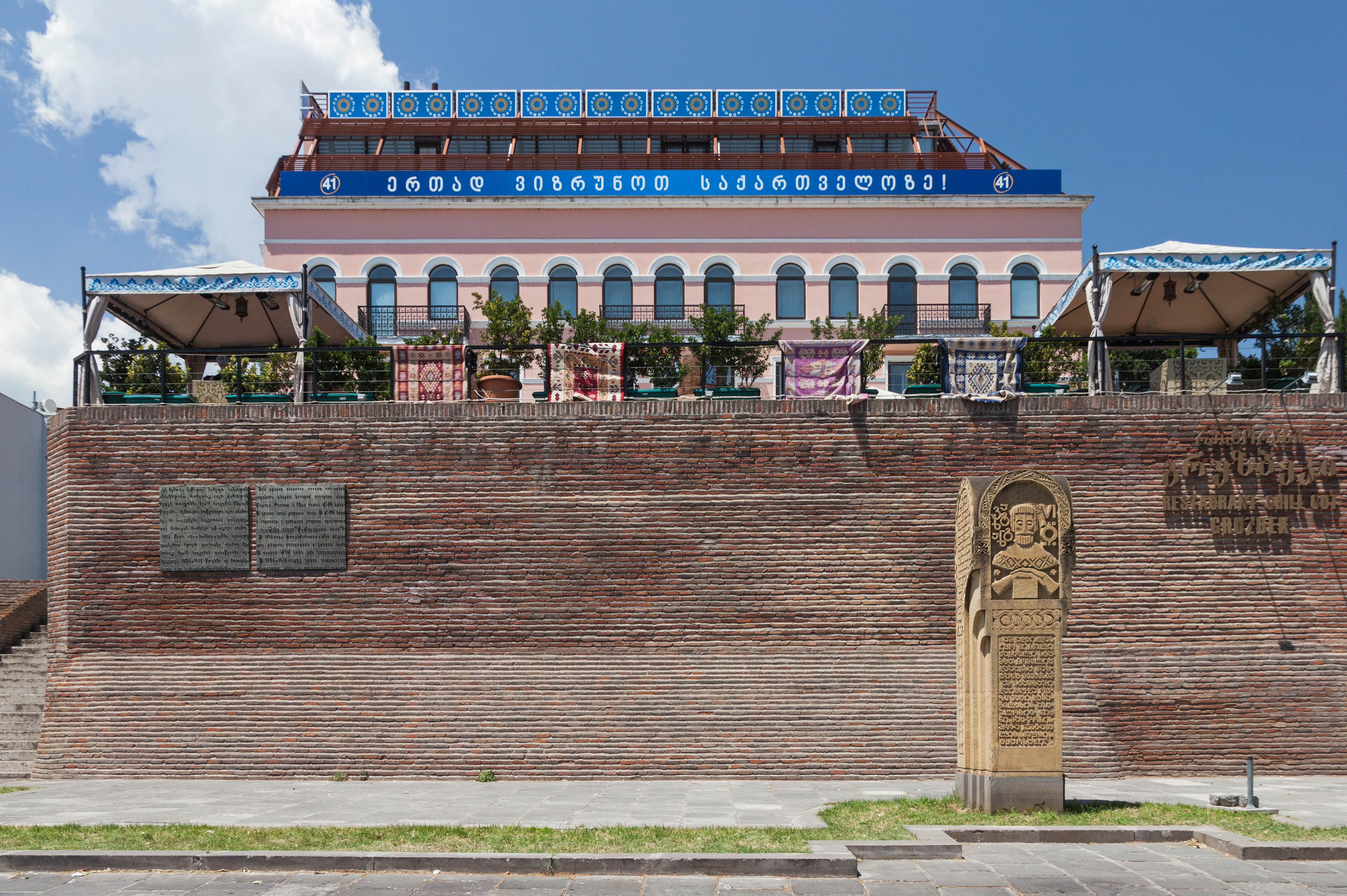 Mepetubani restaurant. Tbilisi, Georgia.